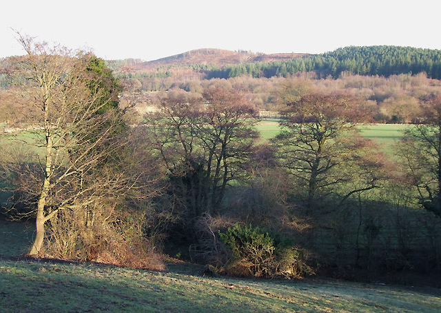 Across the Valley at Lawley, Shropshire Birch Coppice is on the other side of the valley.